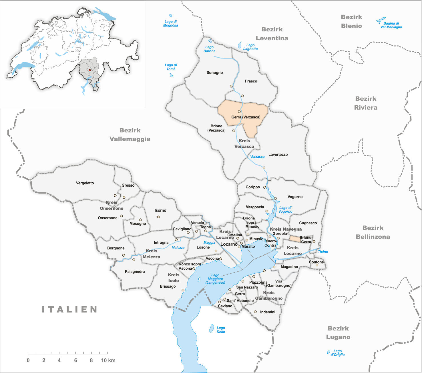 Municipality Gerra (Verzasca)